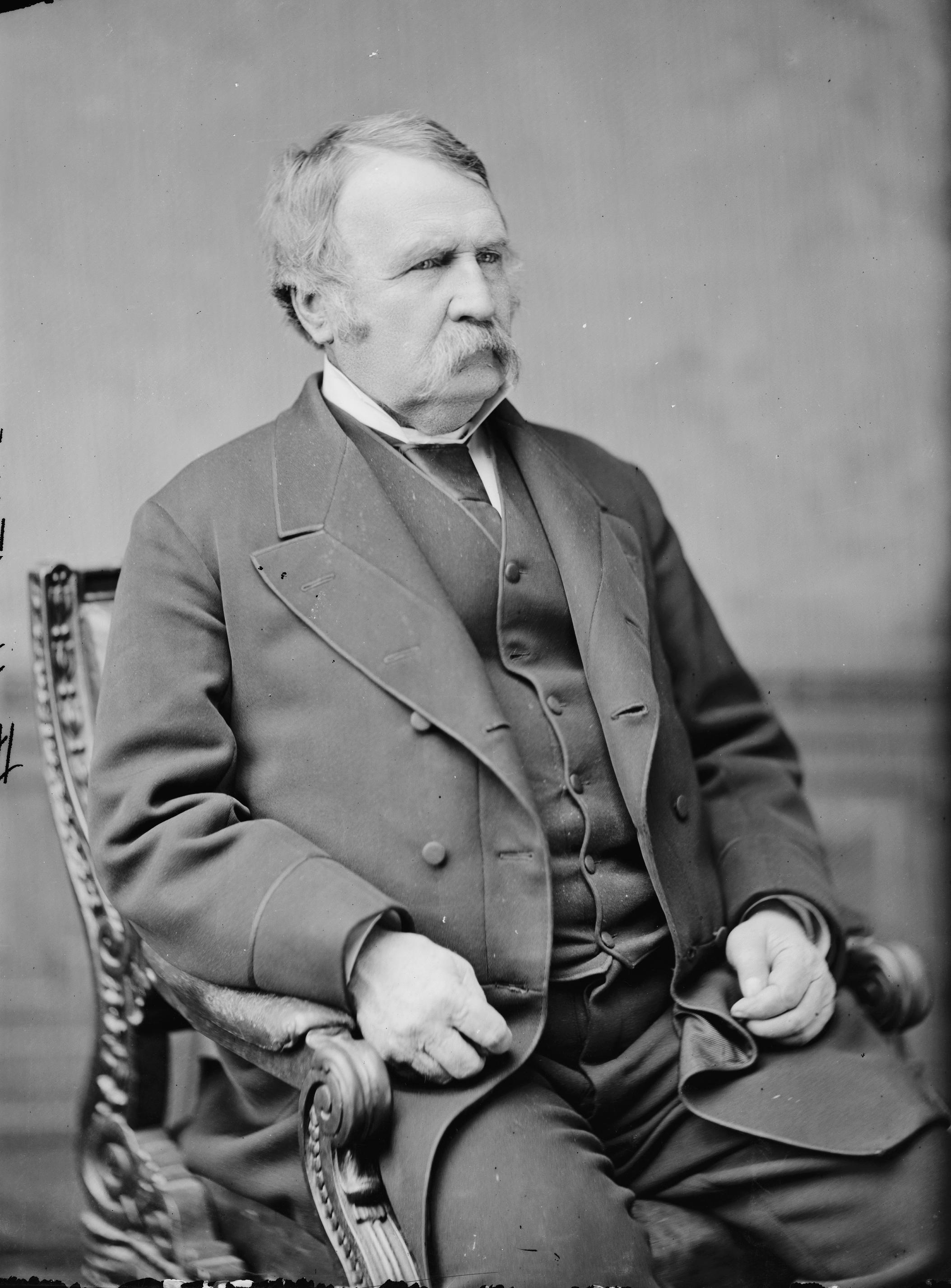 William H. Emory. Library of Congress description: "Emory, Gen. Wm. H. U.S.A. (not in uniform)"